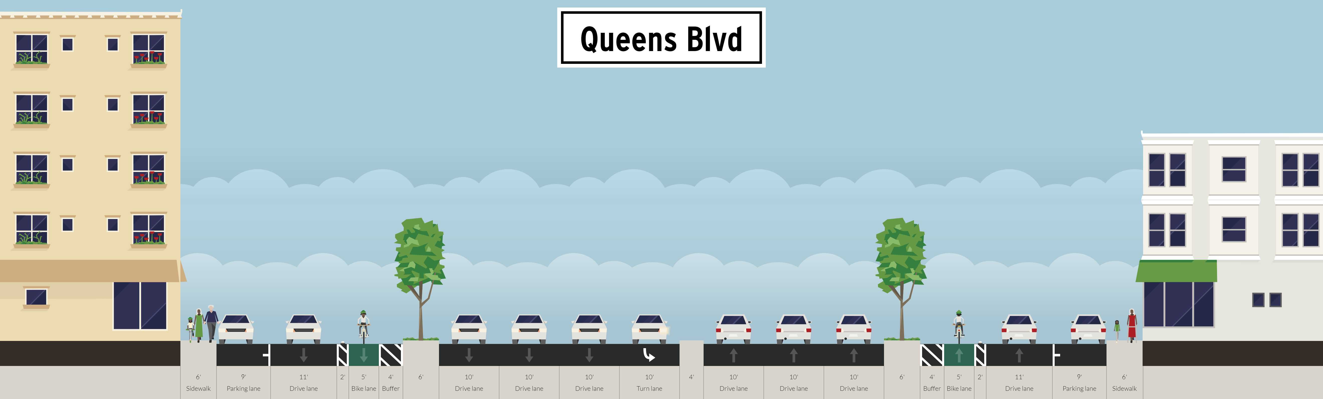 Cross section of Queens Boulevard at approximately 73rd Street in New York City